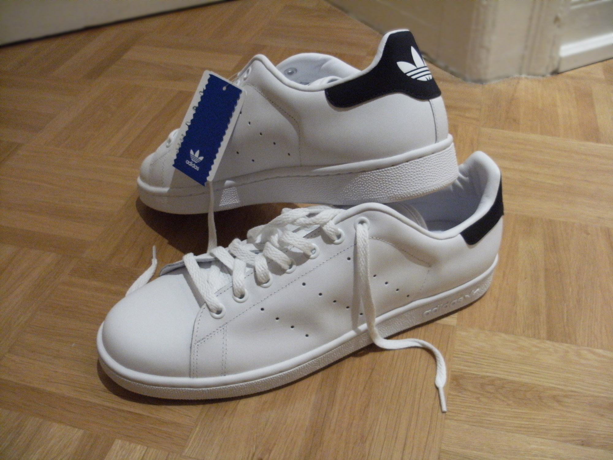 Pair of Adidas shoes, model "Stan Smith"